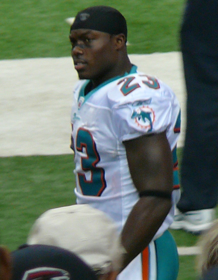 If used somewhere other than Wikipedia, Nelson, by name.